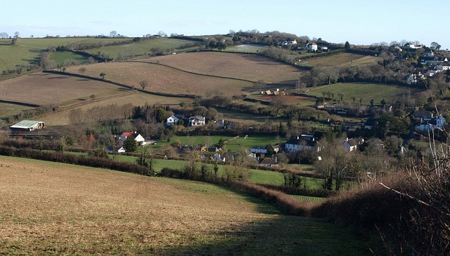 Field above Gabwell. Seen from Ridge Road. The hedge on the right appears on the left of 1158618. Below is the Gabwell valley.